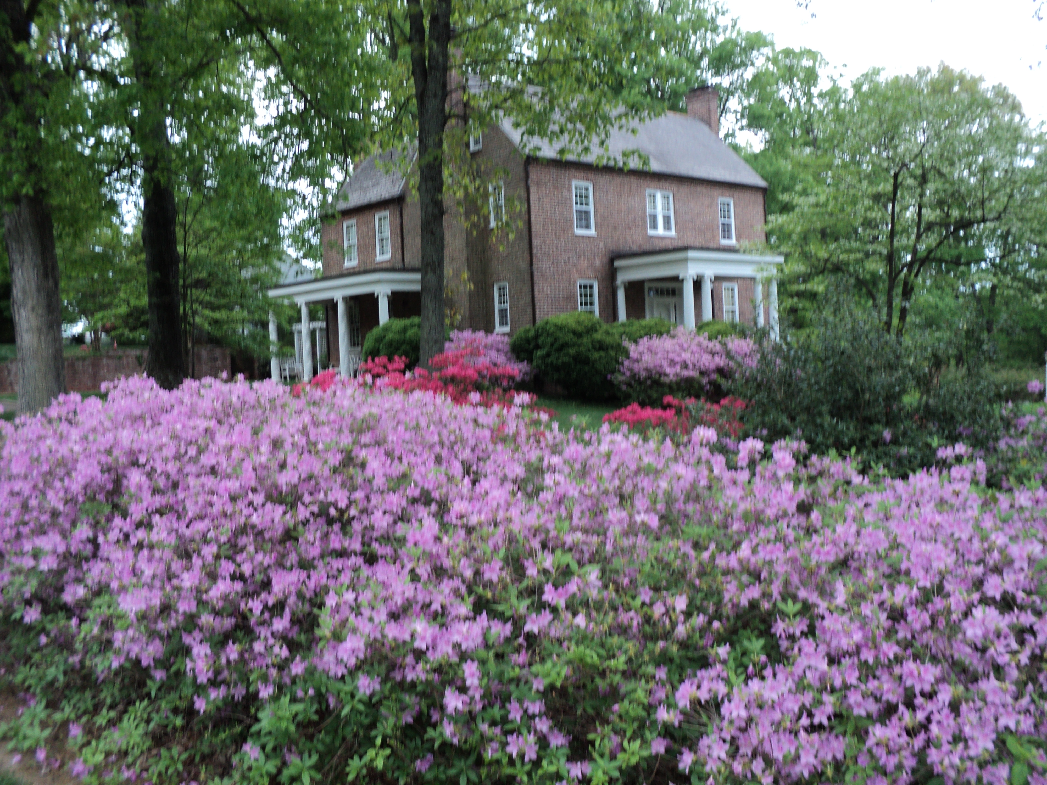 View of 'Greenwood,' a two-story Flemish-bond brick house built for Colonel Joseph Martin, son of General Joseph Martin. The house was built in 1808–1810 at Axton, Henry County, Virginia, for Col. Martin, who was born in 1785 and served in the War of 1812. Col. Martin served in both the Virginia House of Delegates and for eight years in the Virginia Senate. He also served as a member of the constitutional convention of 1829–1830, and three times as a presidential elector. He was lifelong friends with Archibald Stuart of Patrick County, Virginia, father of Confederate general J.E.B. Stuart, as well as with United States President and Virginia native John Tyler. During the War of 1812, Col. Martin commanded a regiment of militia. His plantation house, Greenwood, is based on a symmetrical three-bay Early Republic style and has a centered single-leaf wood door with a full surround. The house's portico is supported by paired Ionic columns. The windows are 9/9 sash windows with splayed brick lintels. The home features two exterior-end chimneys with disengaged stacks. It has seven fireplaces. In about 1940, basement excavations caused a cave-in, and the house was disassembled and moved from its location at Axton in Henry County to nearby Martinsville, named for Col. Joseph Martin's father. Col. Joseph Martin married Sally (Hughes) Martin, daughter of Col. Archelaus Hughes of Hughesville, Patrick County, Virginia, and a noted Revolutionary War soldier and patriot. Col. Martin and Sally Hughes Martin had eight daughters and four sons. Of the 12 children, two married members of the Hairston family; two married members of the Pannill family; and another two married members of the Dillard family. [1] An oil-on-canvas portrait believed to be Col. Joseph Martin is in the collection of the Bassett Historical Center, Bassett, Virginia. Also surviving is the porcelain dinnerware service from Col. Martin's home 'Greenwood,' manufactured by John Ridgway & Co., Staffordshire.